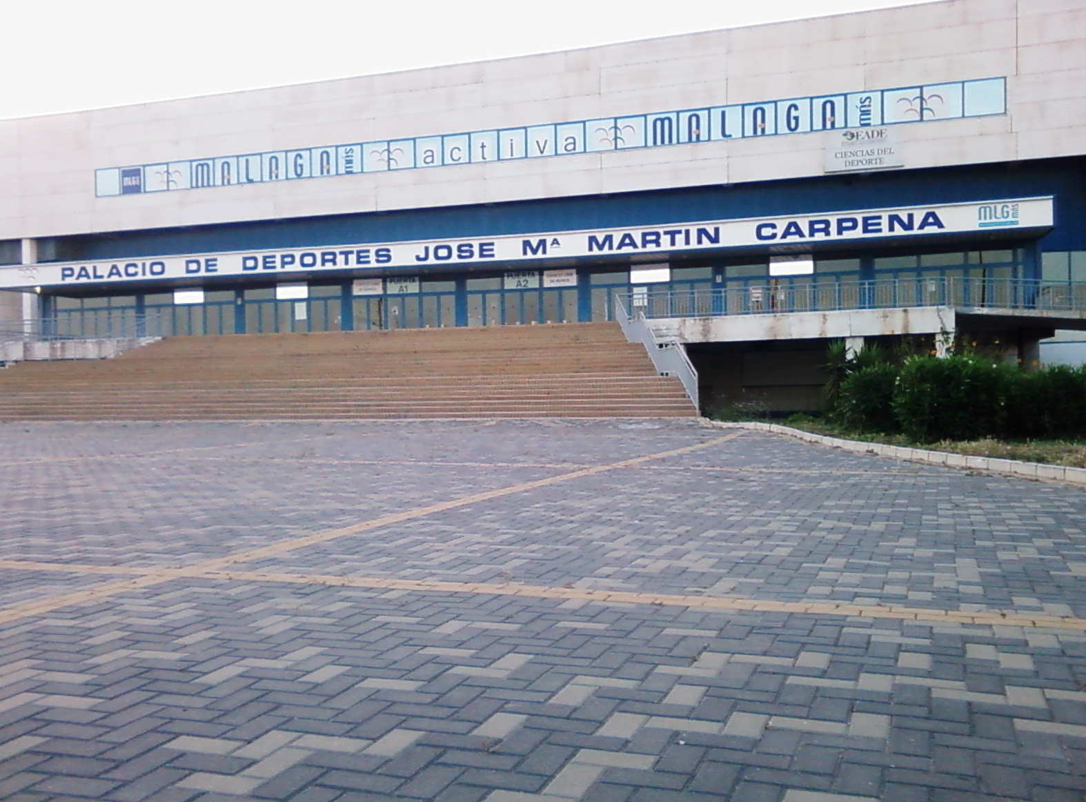 José María Martín Carpena Arena, Málaga, Spain